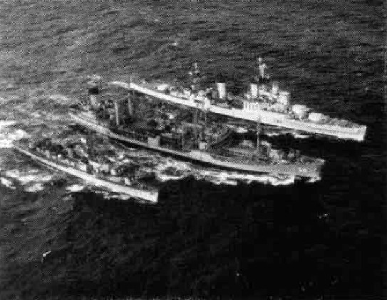 The British Town-class cruiser HMS Sheffield (C24), background, and the U.S. Navy Allen M. Sumner-class destroyer USS Harlan R. Dickson (DD-708) refueling from a U.S. fleet oiler during the NATO exercise "Operation Strikeback" in September 1957.